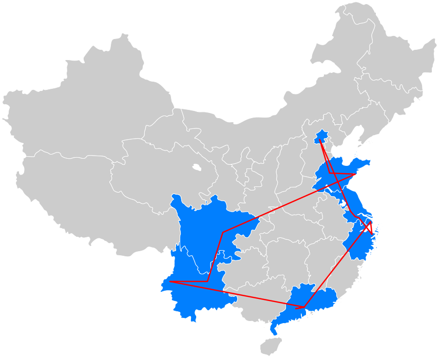 The Amazing Race: China Rush Route